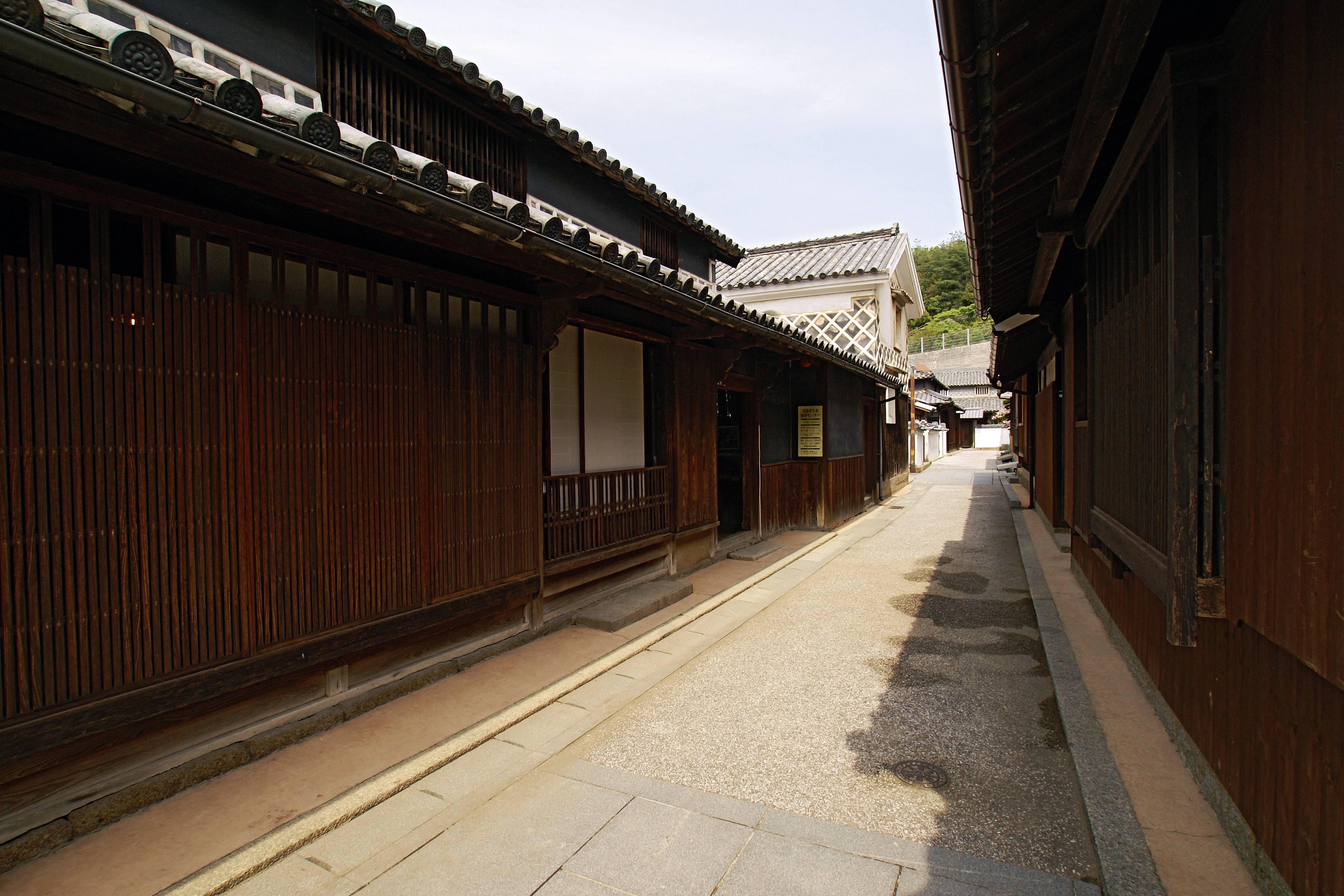 a street of Kasajima in Hon-jima of Shiwaku Islands (Marugame, Kagawa prefecture, Japan)